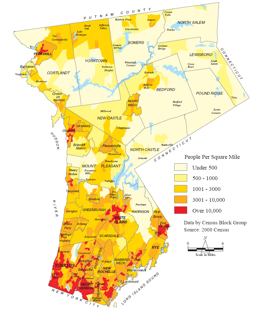 This map of the resident population throughout Westchester County is an enhancement (created by me) of the original provided on the county website.